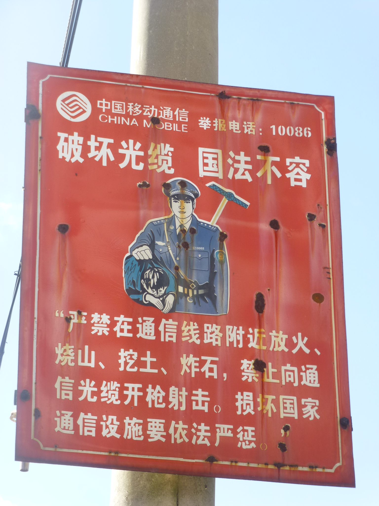 A utility pole by the Hongqi River, with a poster that warns about the legal responsibility for damaging fiber optic communication cables.